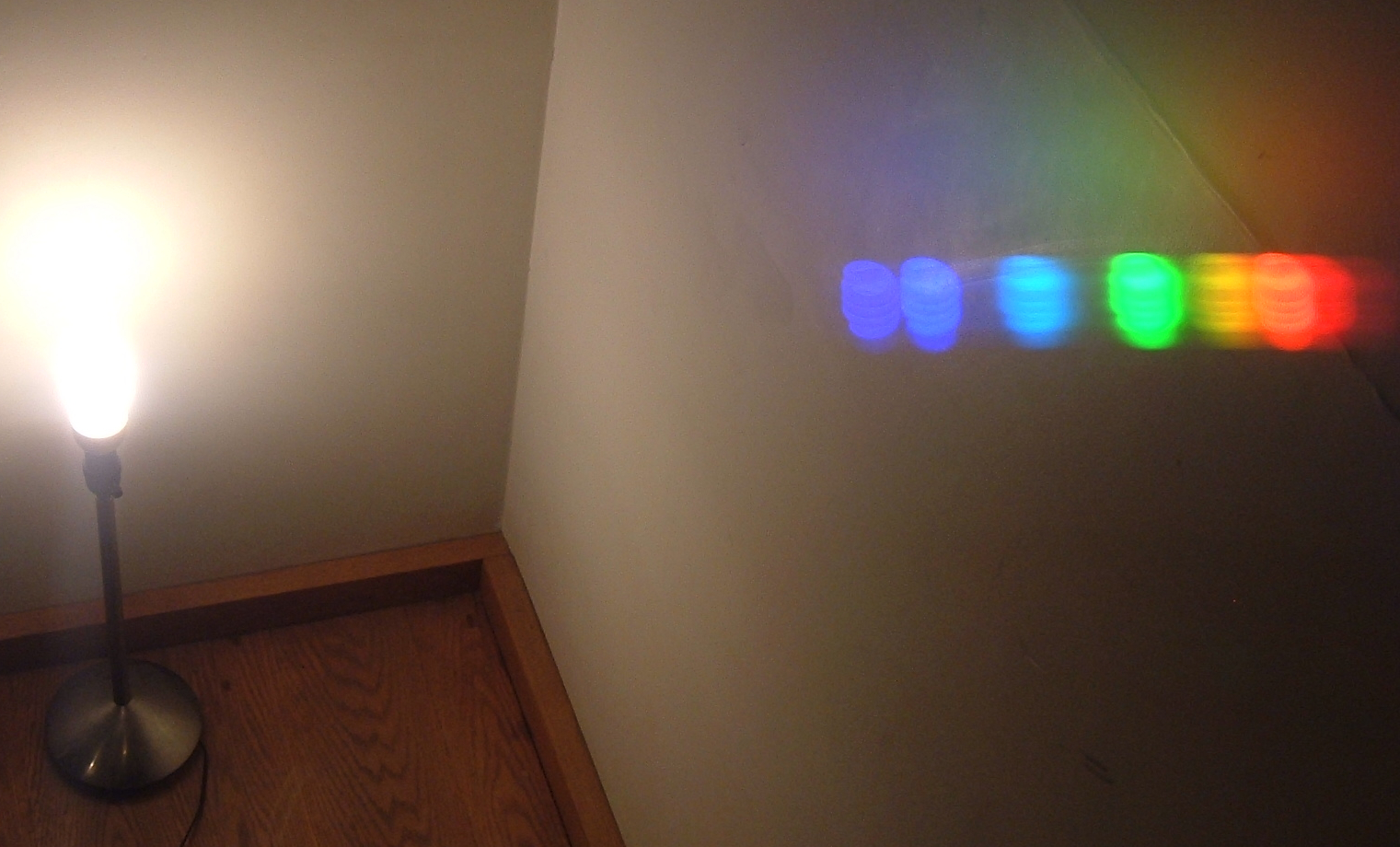 Spectrum of a Compact fluorescent lamp.